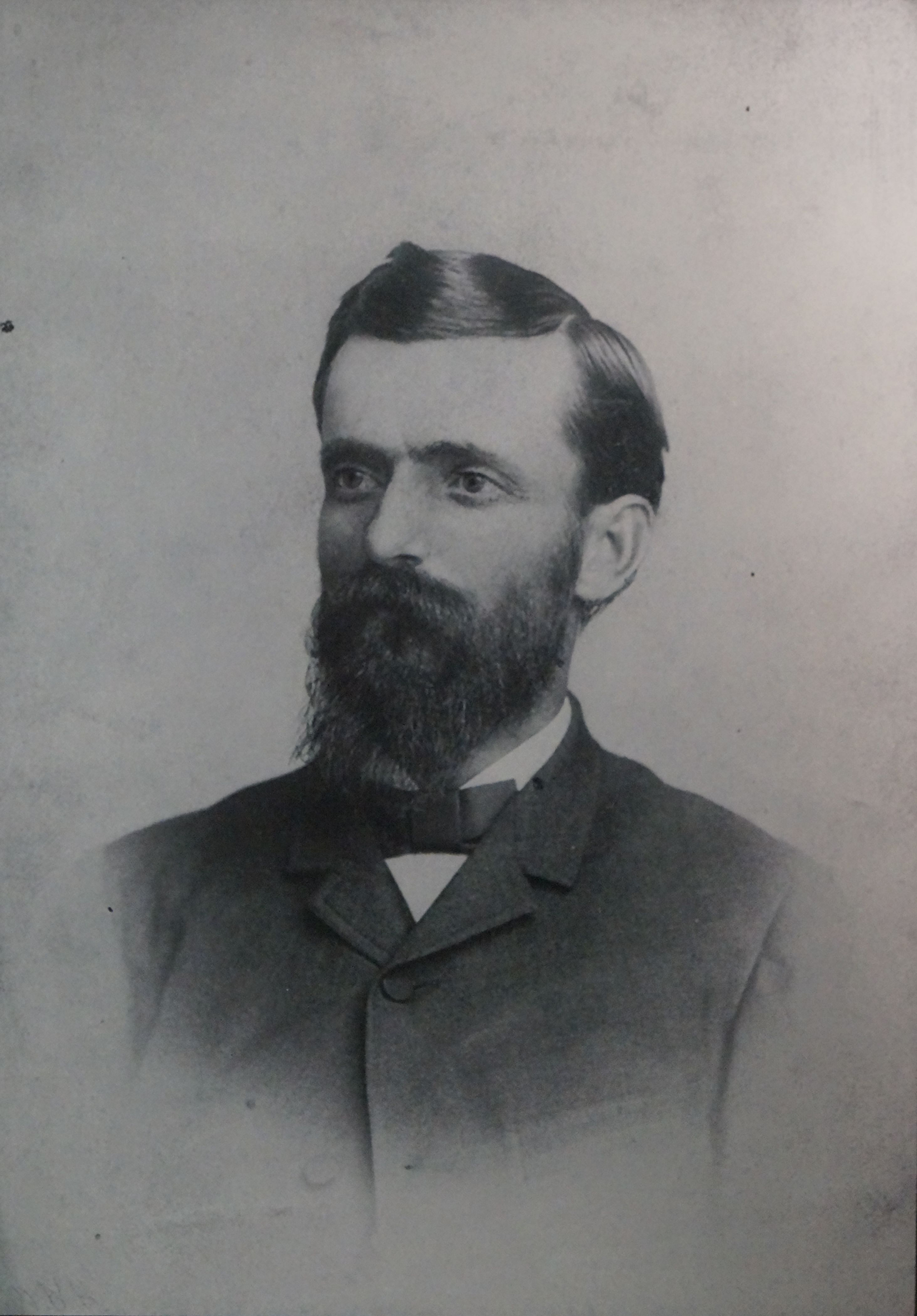 Mohave Museum of History and Arts